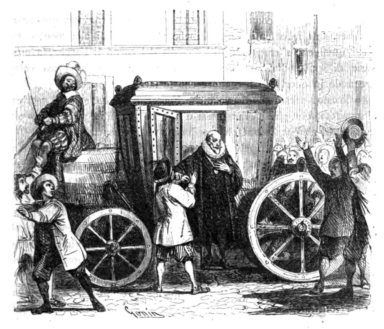 The most famous Italian historical romance,and the masterpiece of Alessandro Manzoni.